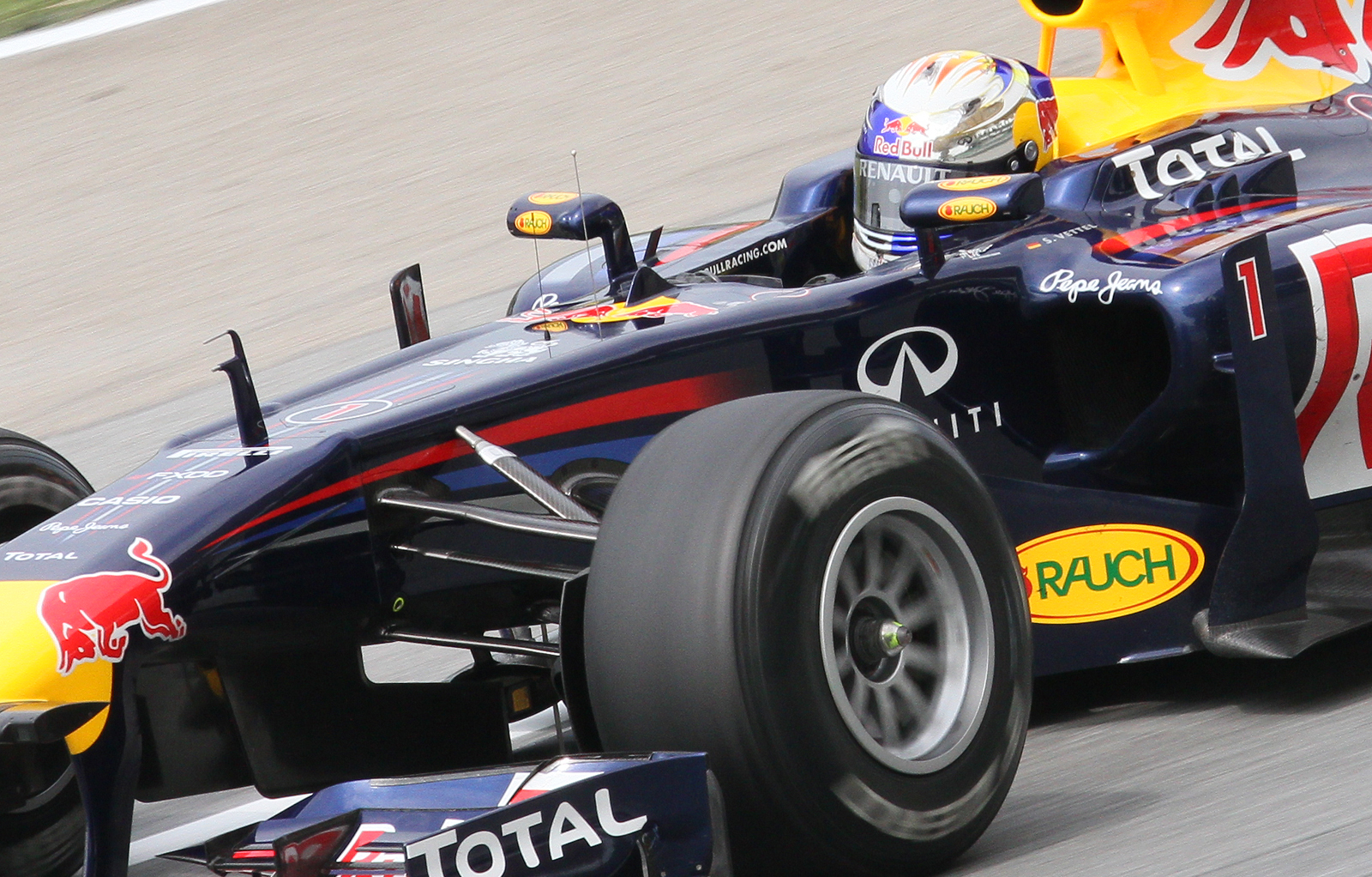 Formula One 2011 Rd.2 Malaysian GP: Sebastian Vettel (Red Bull) during the first practice session on Friday.